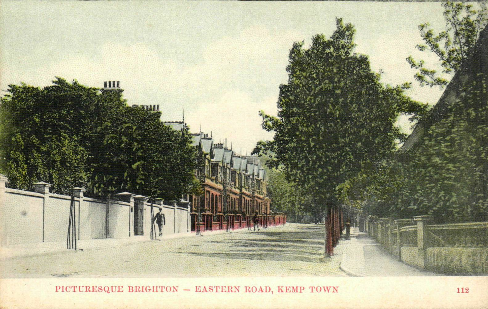 Postcard of Eastern Road, Kemptown, Brighton, Sussex, England. Dated before 1914 because this colouring technique was carried out in Germany and was not continued after 1914.